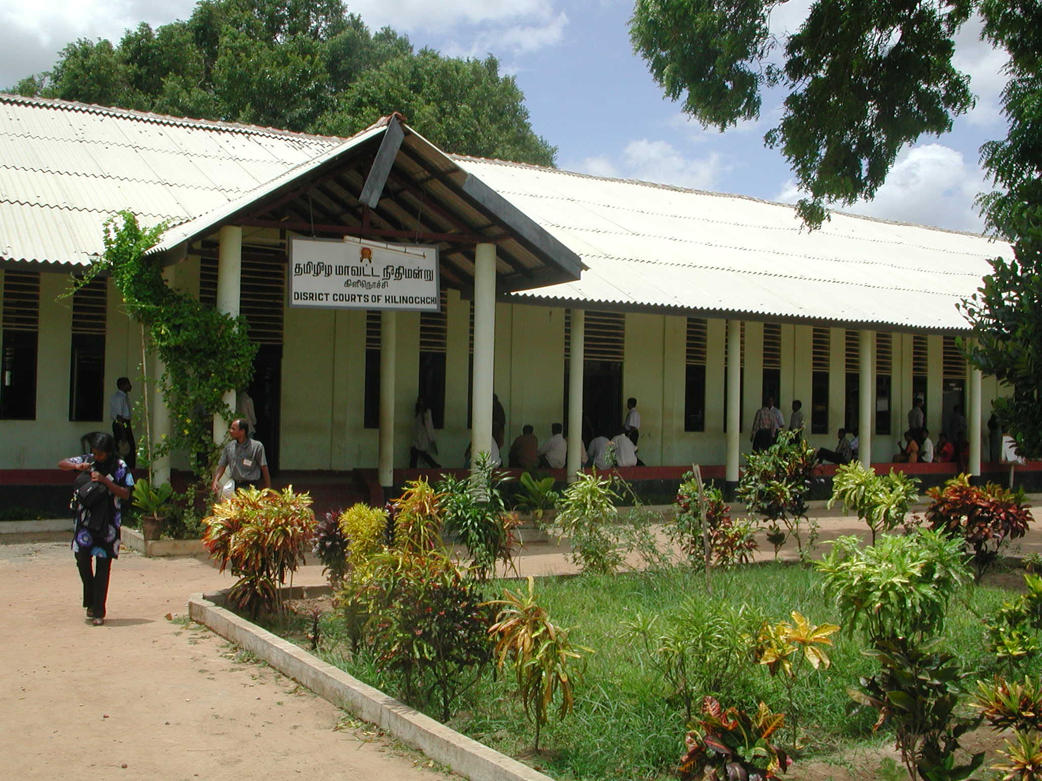 Kilinochchi court (2005) from the de-facto State Tamil Eelam